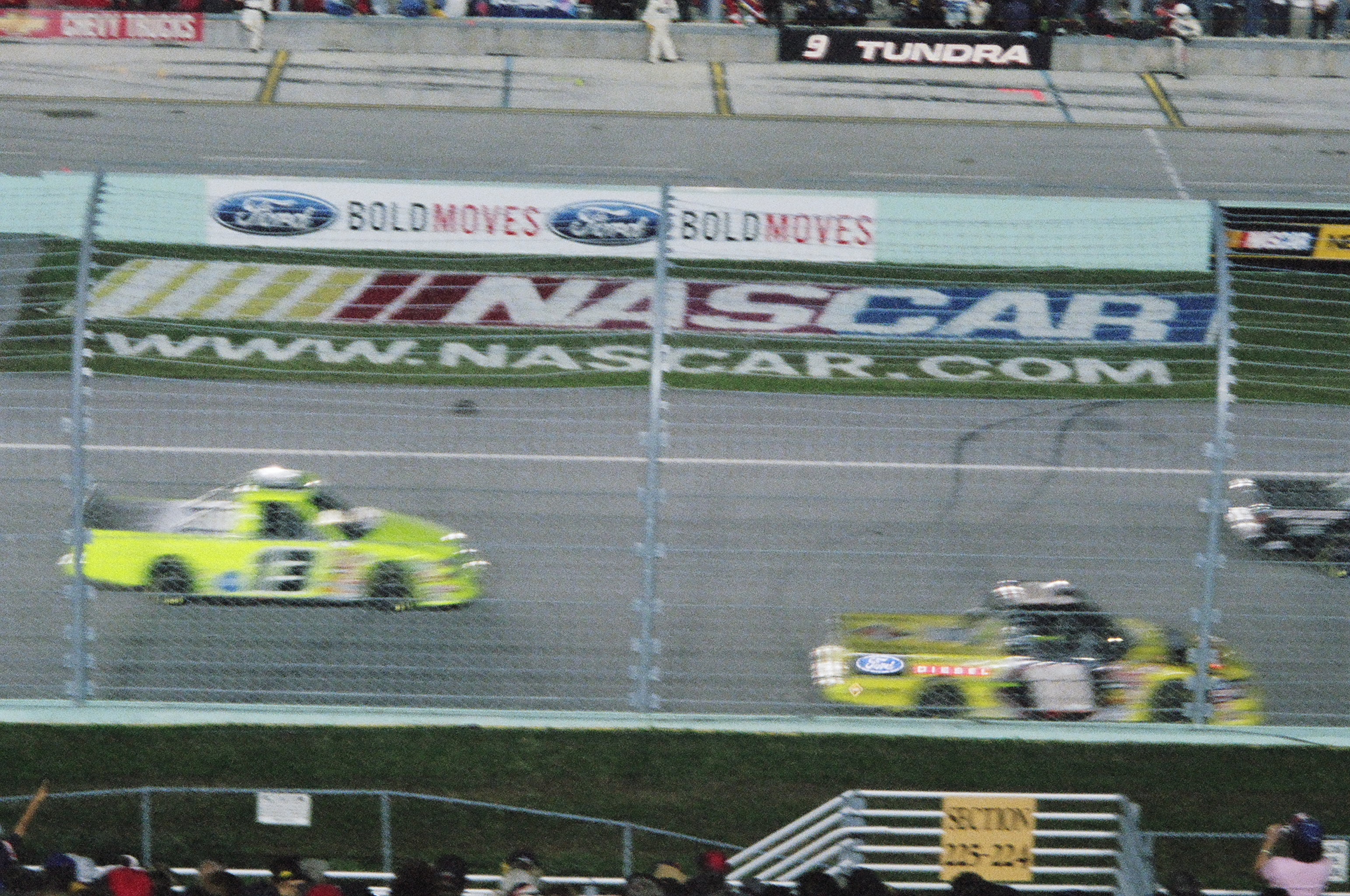 Terry Cook and Kerry Earnhardt line up for the 2006 Ford 200.